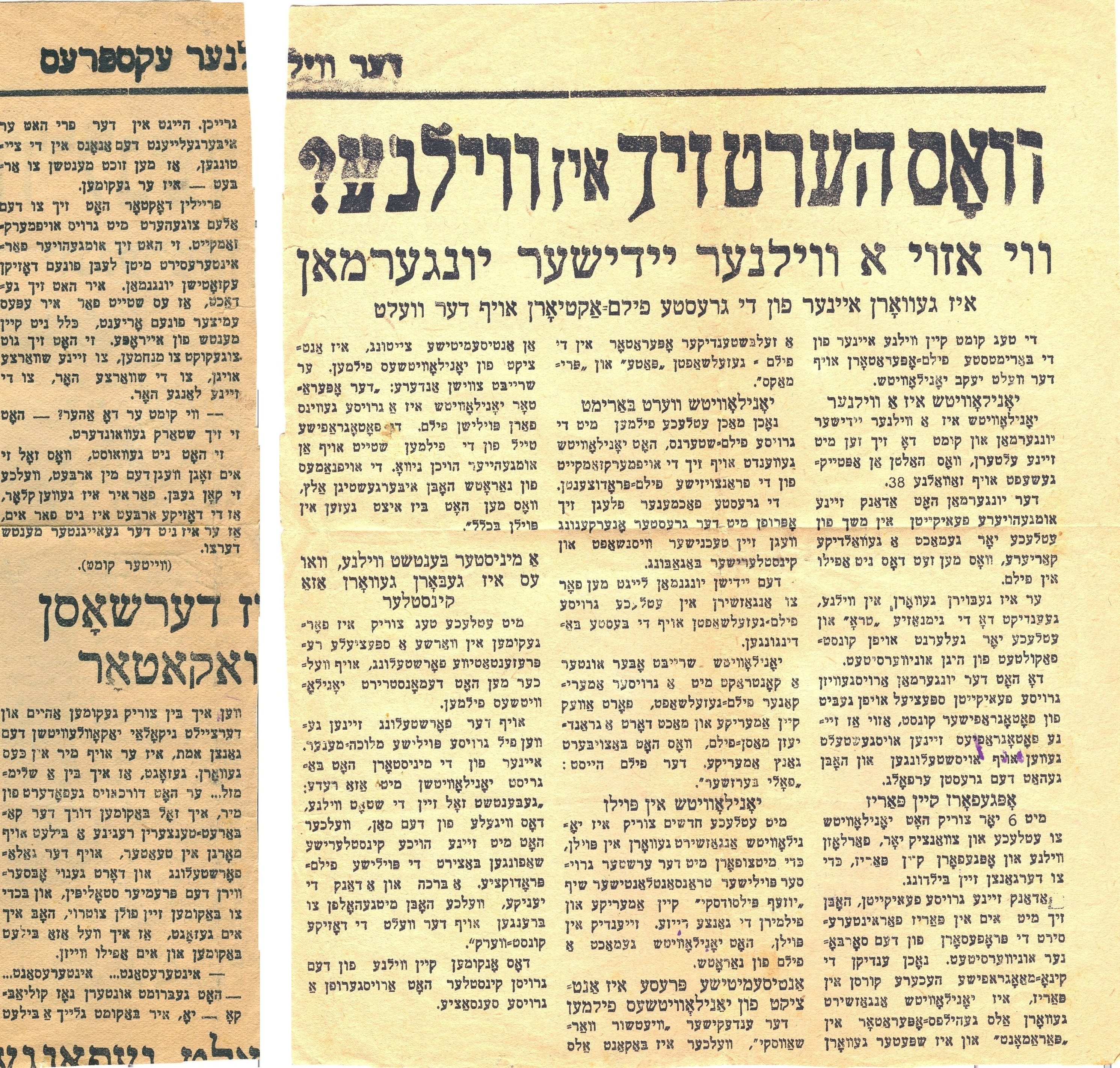 Scanned page of the "Der Wilner Express" newspaper from 1936, published in Vilna, with an article that tells Jonilowicz life. The article is in Yiddish.